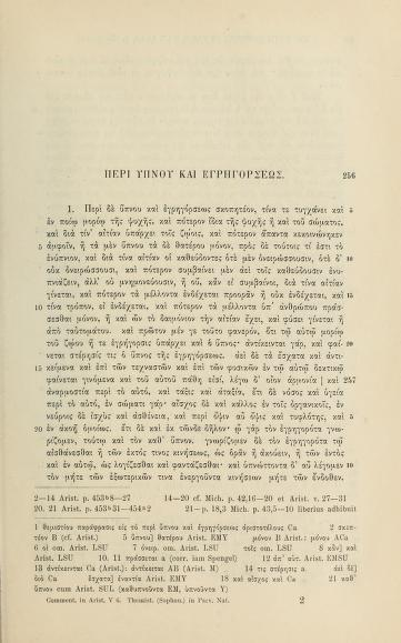 In Parva naturalia commentarium